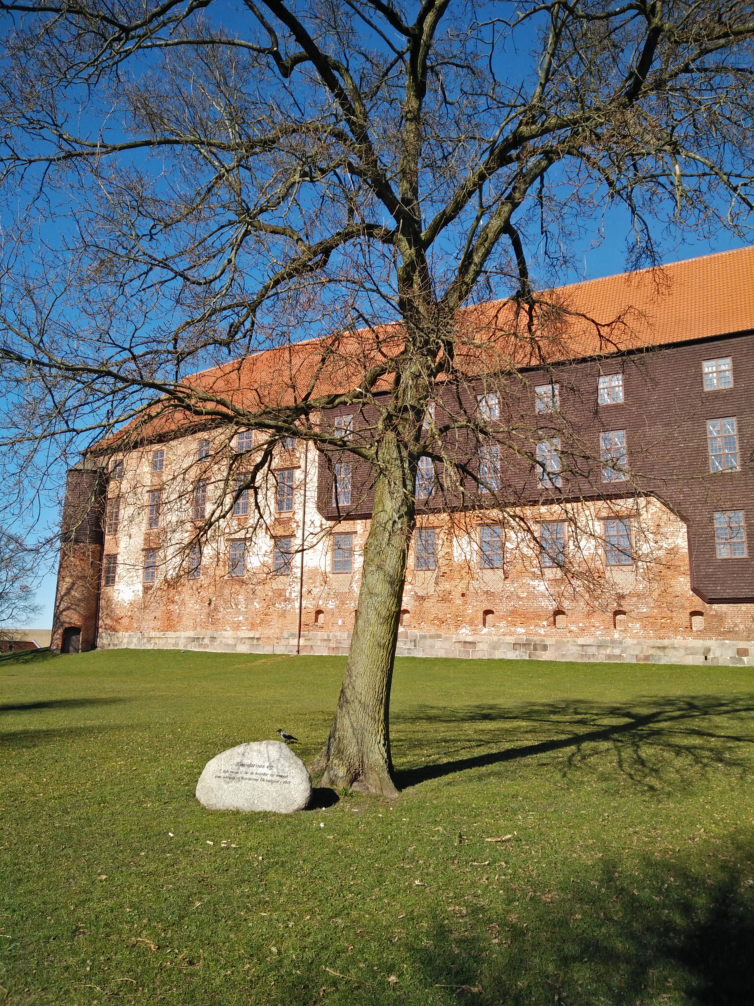 Kvindeeg og tilhørende mindesten ved Koldinghus.